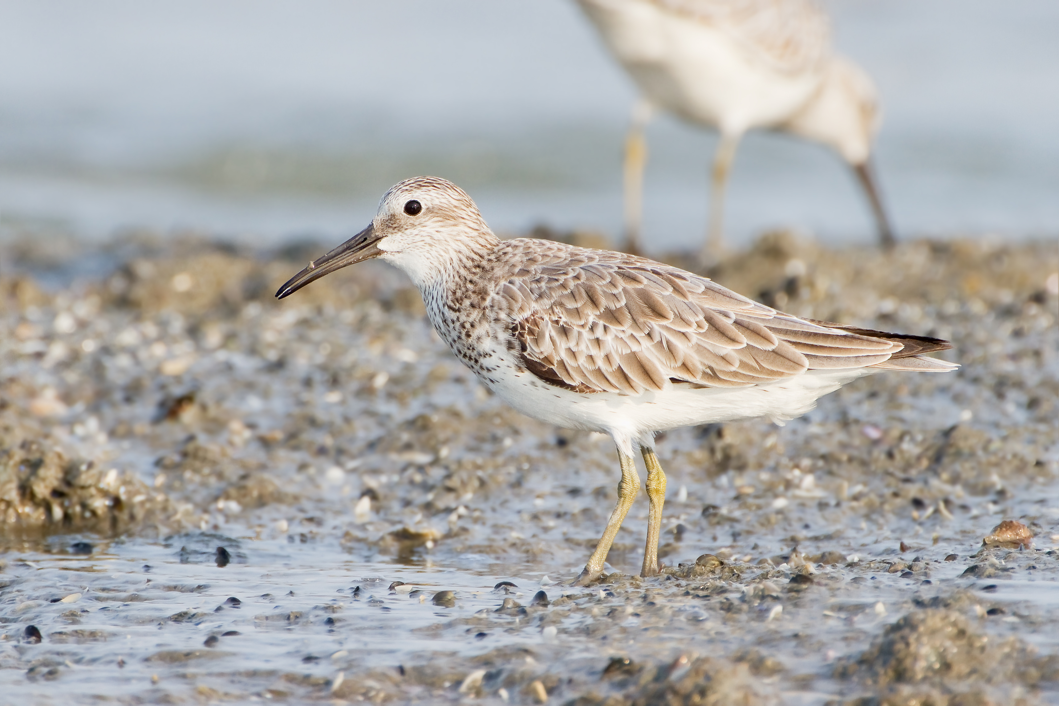 Great Knot (Calidris tenuirostris), Laem Phak Bia, Ban Laem, Phetchaburi, Thailand